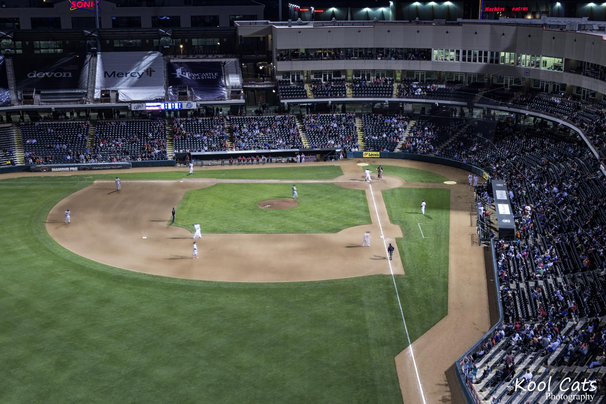 Oklahoma Red Hawks on a Saturday night.